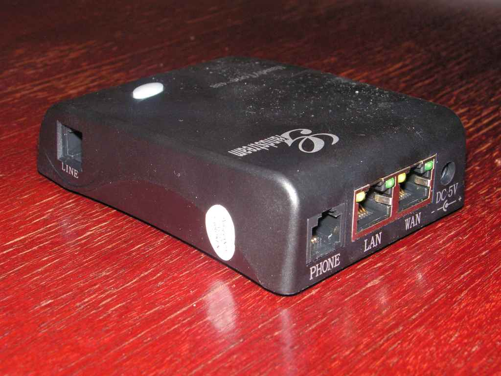 Analog Telephony Adapter Grandstream HT488